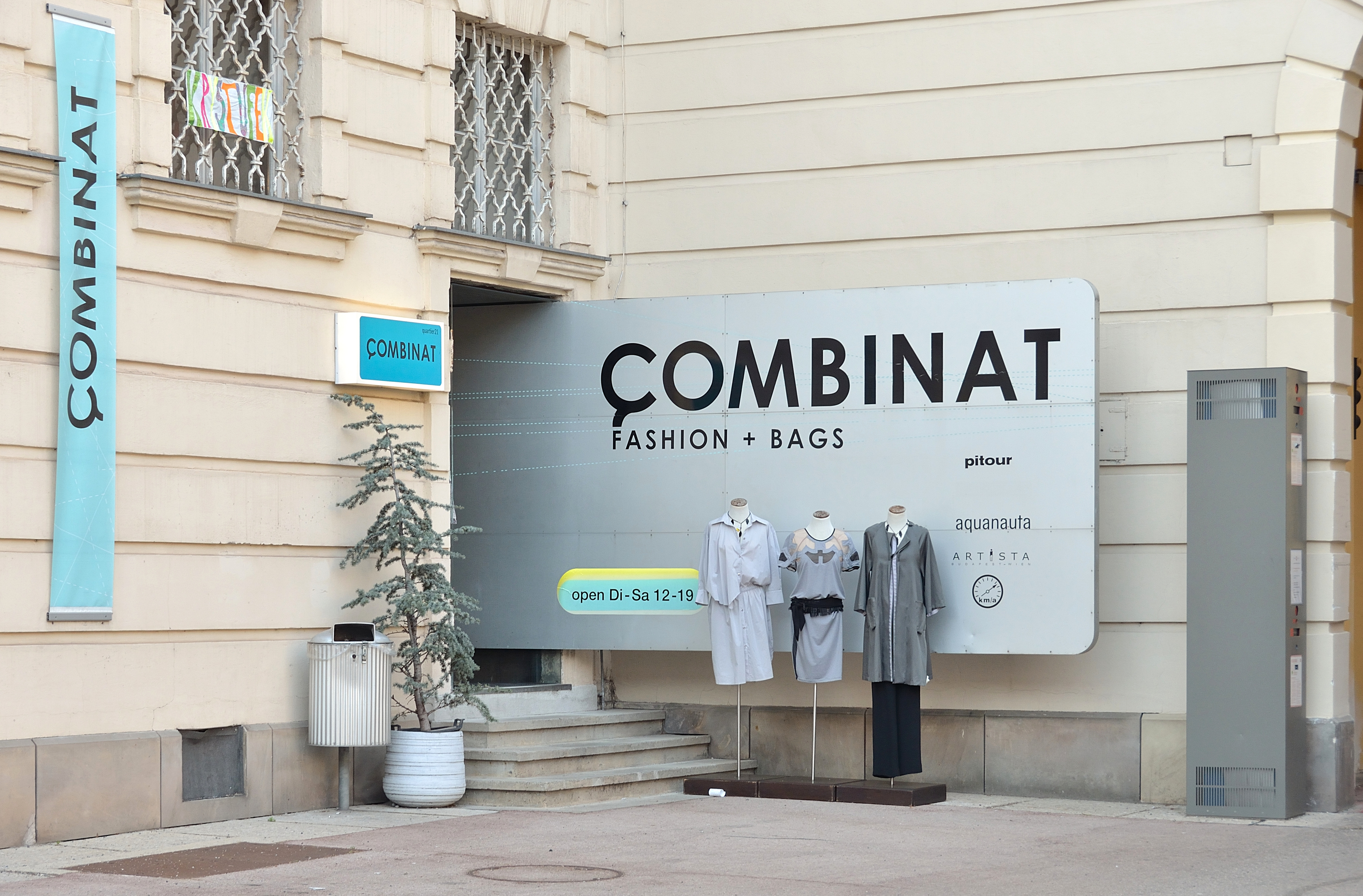 MuseumsQuartier - Combinat shop with Elke Krystufek exhibition